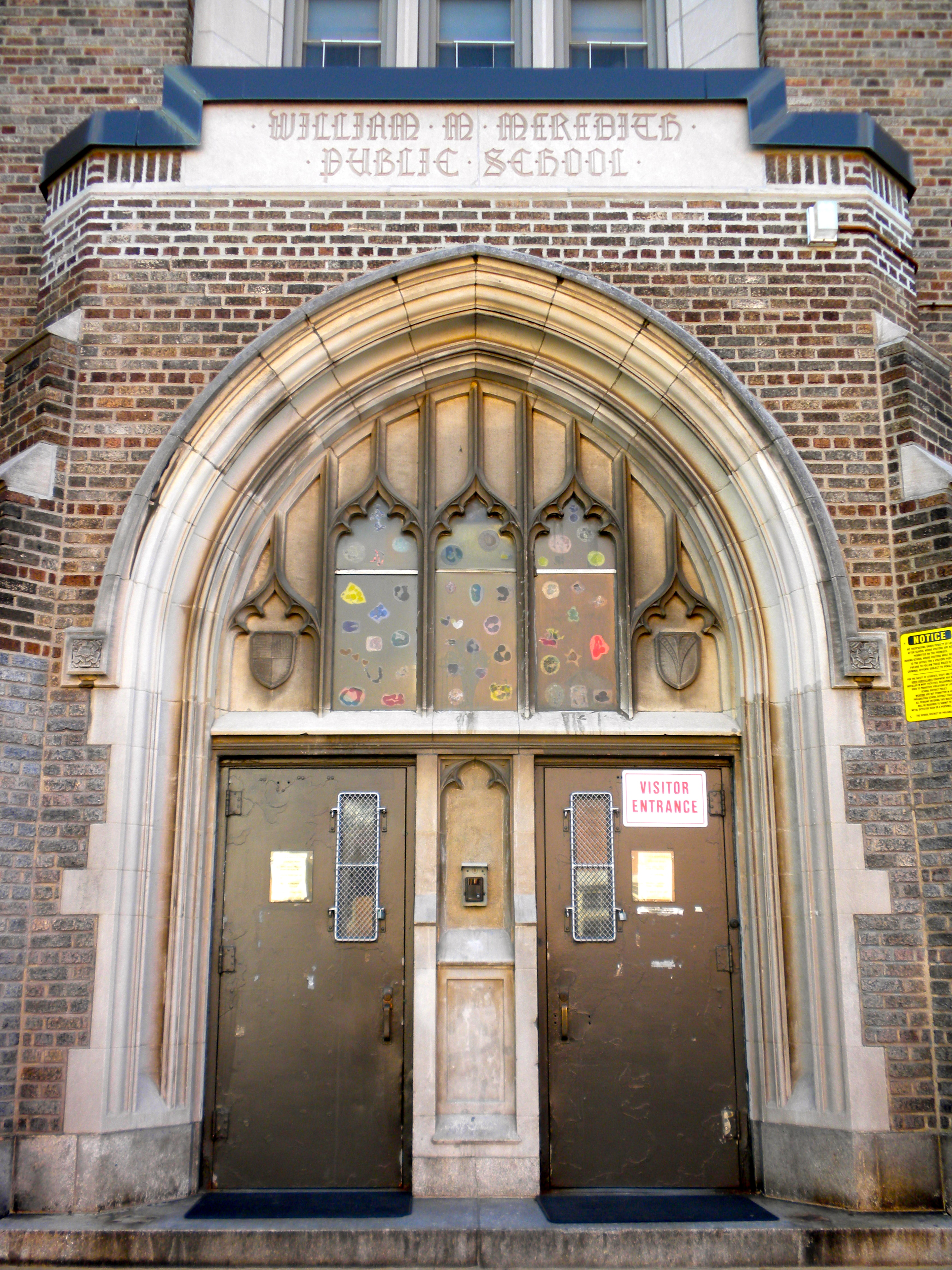 William M. Meredith School on NRHP since December 4, 1986. At 5th and Fitzwater Streets in the Queen Village neighborhood of south Philadelphia, PA.